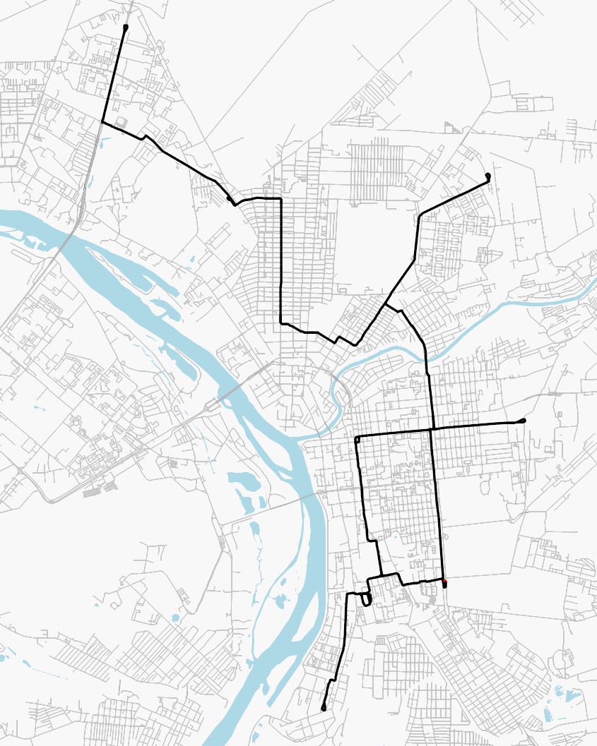 Omsk tram system, rendered using OSM data. This map may be incomplete, and may contain errors. Don't rely solely on it for navigation.